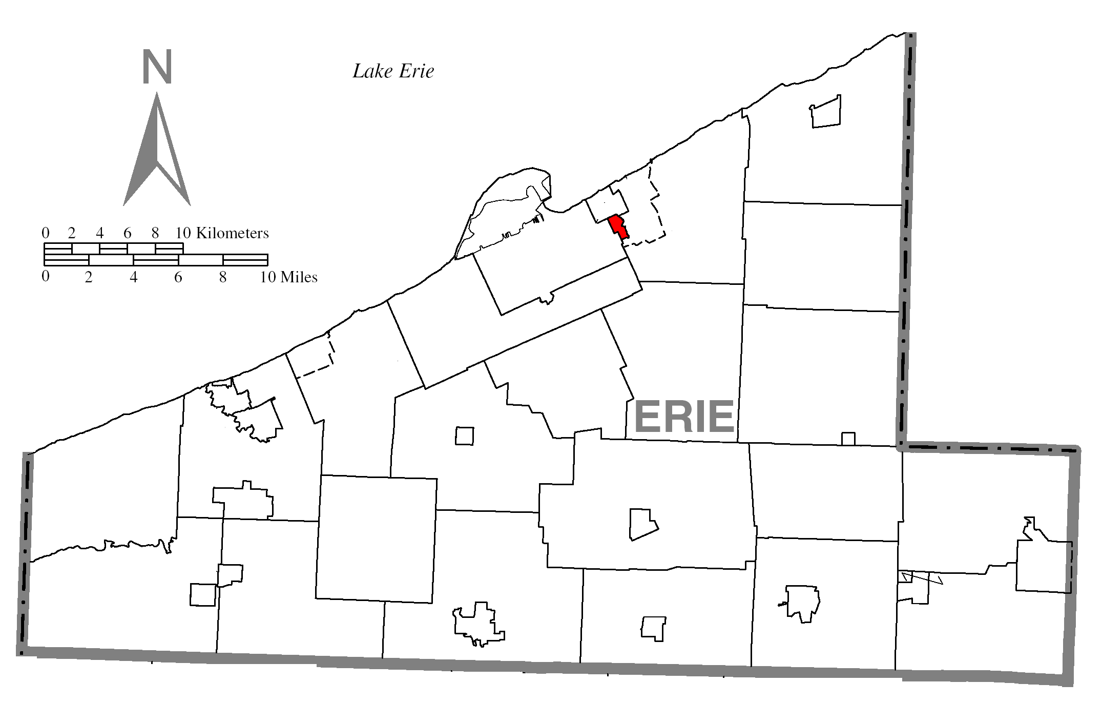 A map of Erie County showing Wesleyville, Pennsylvania (alternate) highlighted on the map.